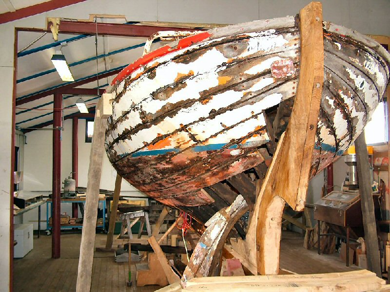 The old danish pilotboat ‘Gnisten’, build in 1925 and under restoration in 2005)